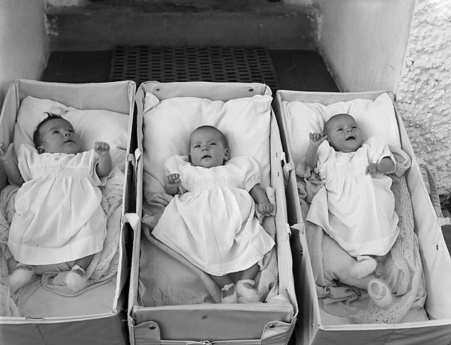 Teitl Cymraeg/Welsh title: Tripledi a anwyd o fewn deuddeng munud i'w gilydd mewn ysbyty ym Mangor Ffotograffydd/Photographer: Geoff Charles (1909-2002) Dyddiad/Date: 16/7/1954 Cyfrwng/Medium: Negydd ffilm / Film negative Cyfeiriad/Reference: (gch06310) Rhif cofnod / Record no.: 3367767 Rhagor o wybodaeth am gasgliad Geoff Charles yn Llyfrgell Genedlaethol Cymru More information about the Geoff Charles Collection at the National Library of Wales Mae ffotograffau Geoff Charles hefyd yn rhan o Broject Europeana Libraries Geoff Charles' photographs also form part of the Europeana Libraries Project